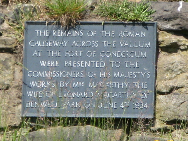 Plaque at the Vallum crossing at Benwell Fort